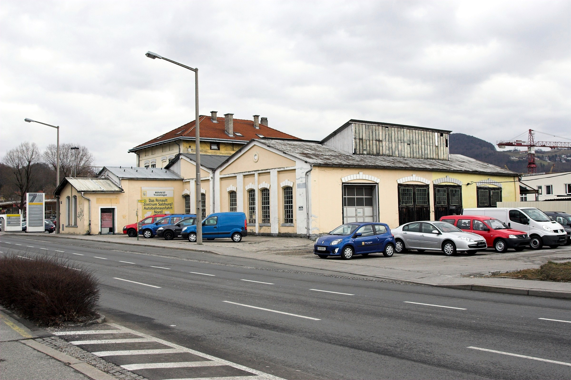 Building of the SKGLB railway's workshop in Salzburg Itzling. After closure of the railway in 1957 it was used as a car repair workshop and demolished in 2014.